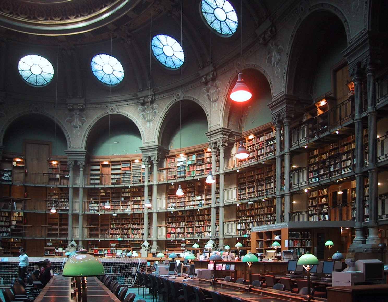 National French library, Richelieu building (oval room)